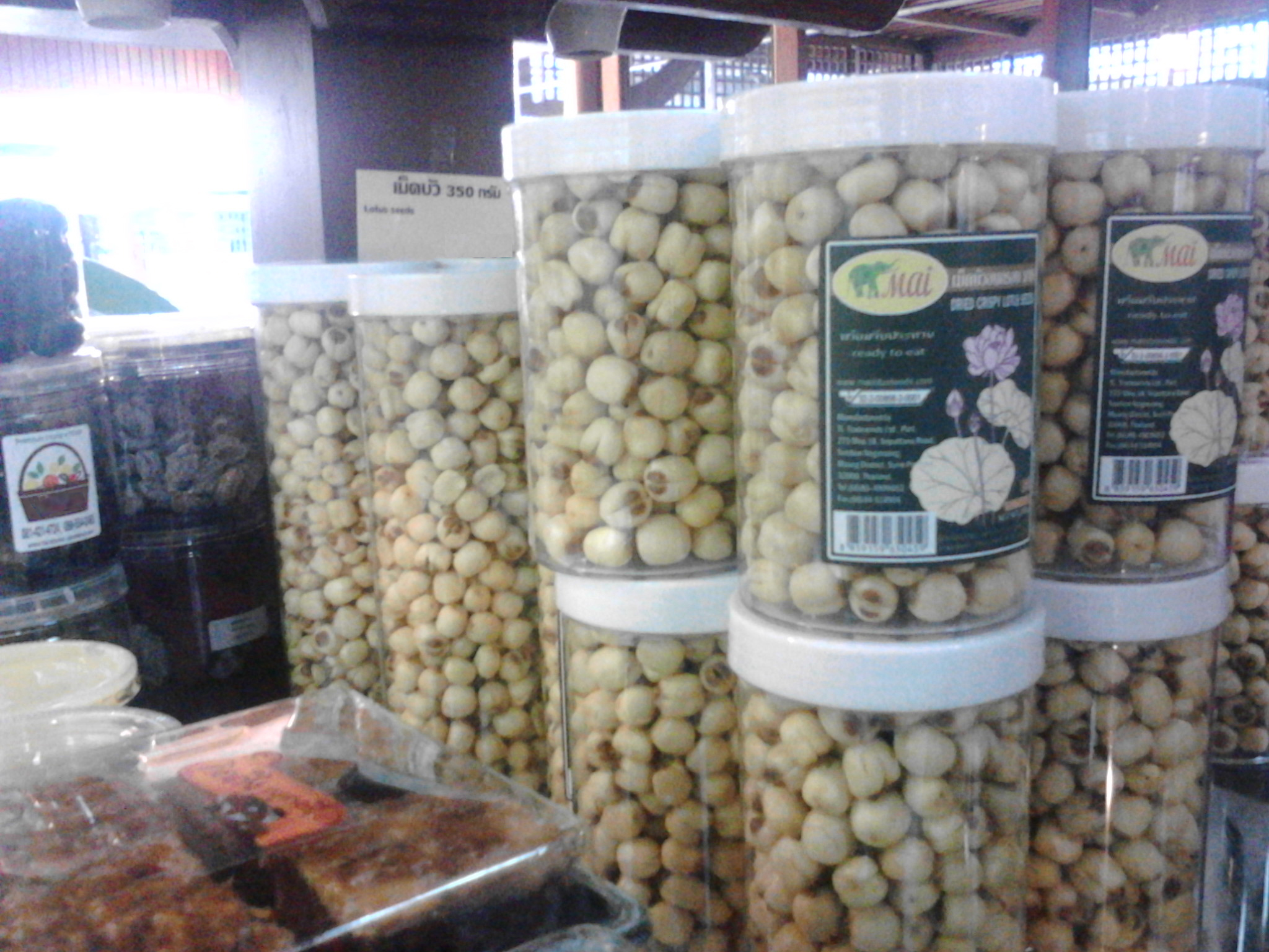 Dried lotus seeds snack (ready to eat) for sale in Surin,Thailand